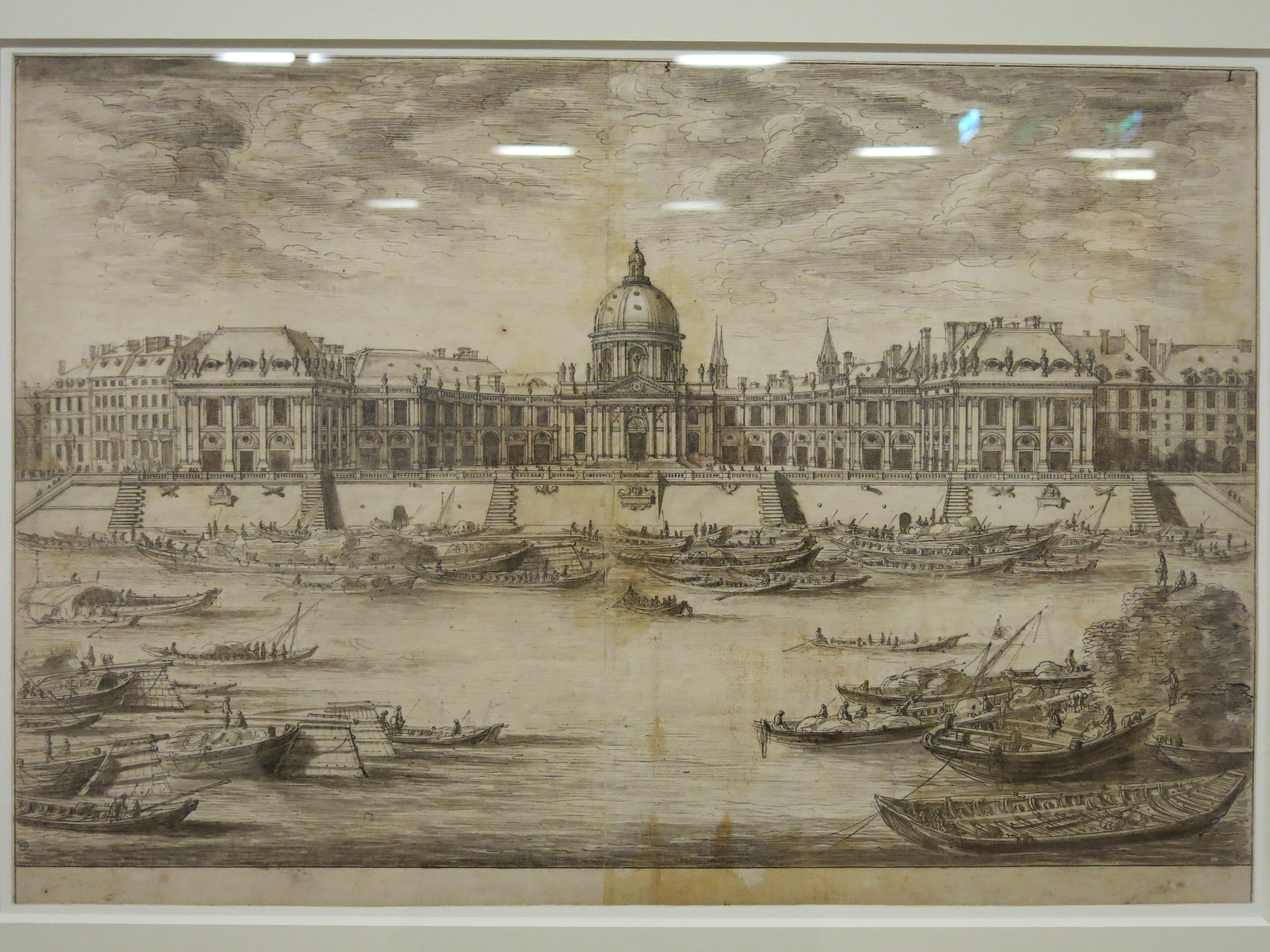 Engraving of the Collège des Quatre-Nations (now seat of the Institut de France) in Paris